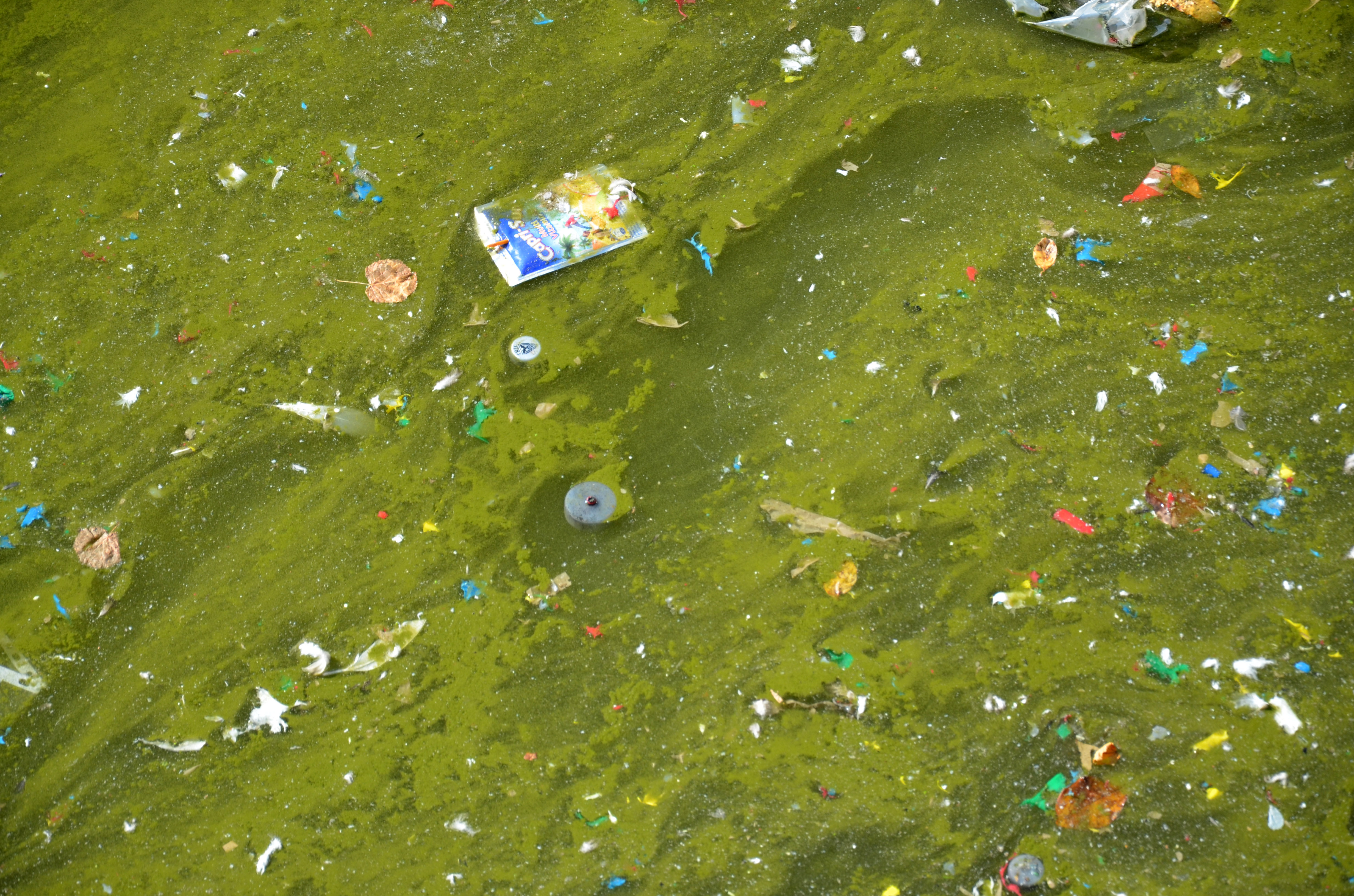 Planktonic cyanobacteria inflorescence ("blue-green algae") in the fall of 2012, in "Quai du Wault" in Lille (north of France)... Suddenly worse, some days after fireworks (soure of nitrates? Phosphorus?) . The samples emit a strong odor of algae (spirulina type) Location: "Quai du Wault" in Lille, not far from downtown (north of France; Location vai google maps: 50.637485,3.05425).